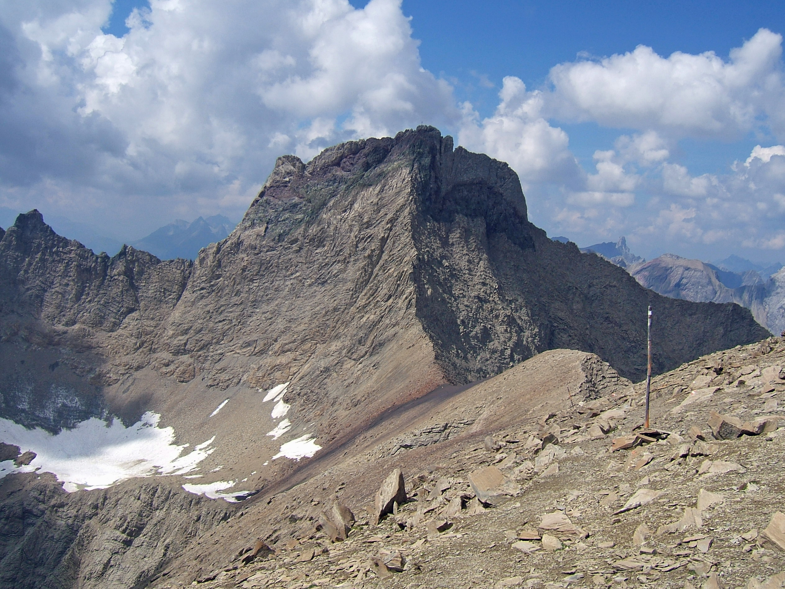 Parseierspitze von Osten, vom Gatschkopf, links die Reste des Grinner Ferners